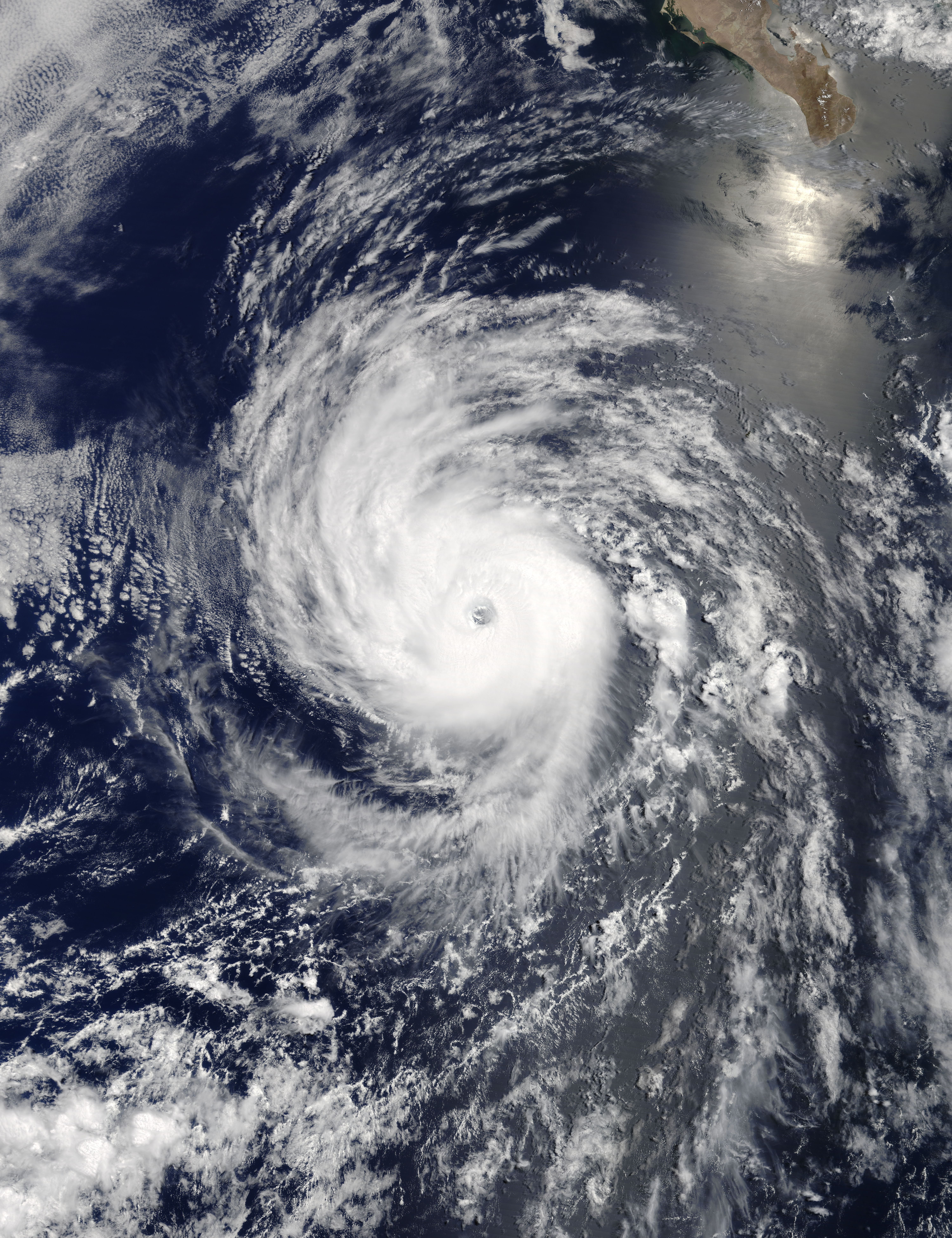 Hurricane Eugene (05E) off Mexico